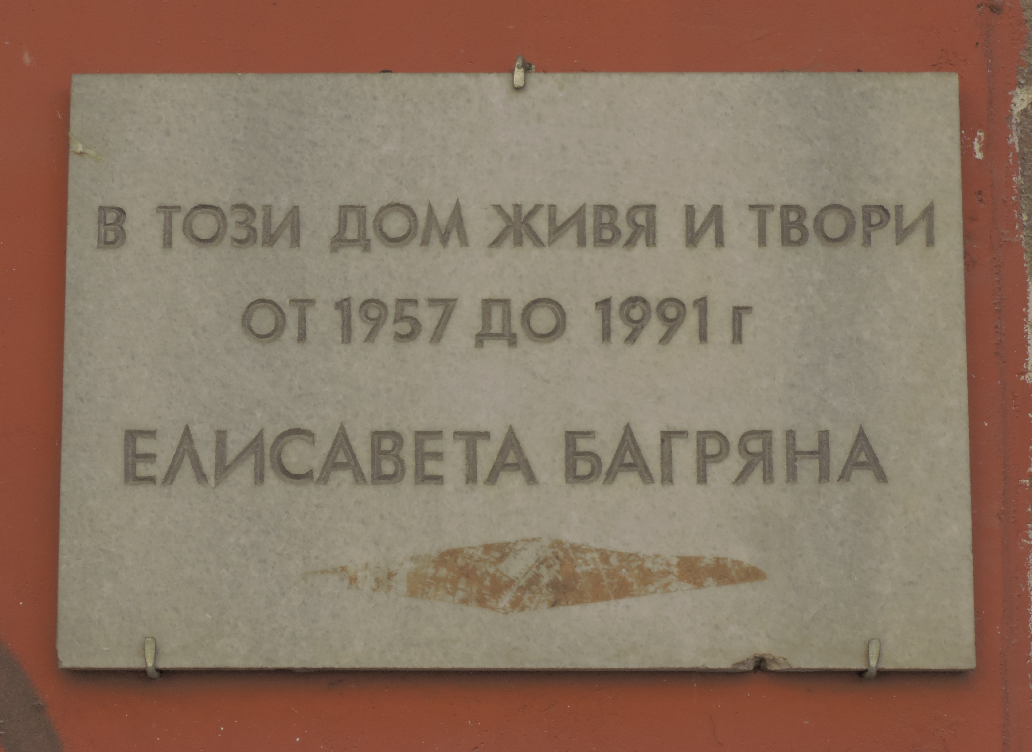 The memorial plaque on the house in which Elisaveta Bagriana lived and worked from 1957 to 1991 year, 58 Neofit Rilska, Sofia, Bulgaria